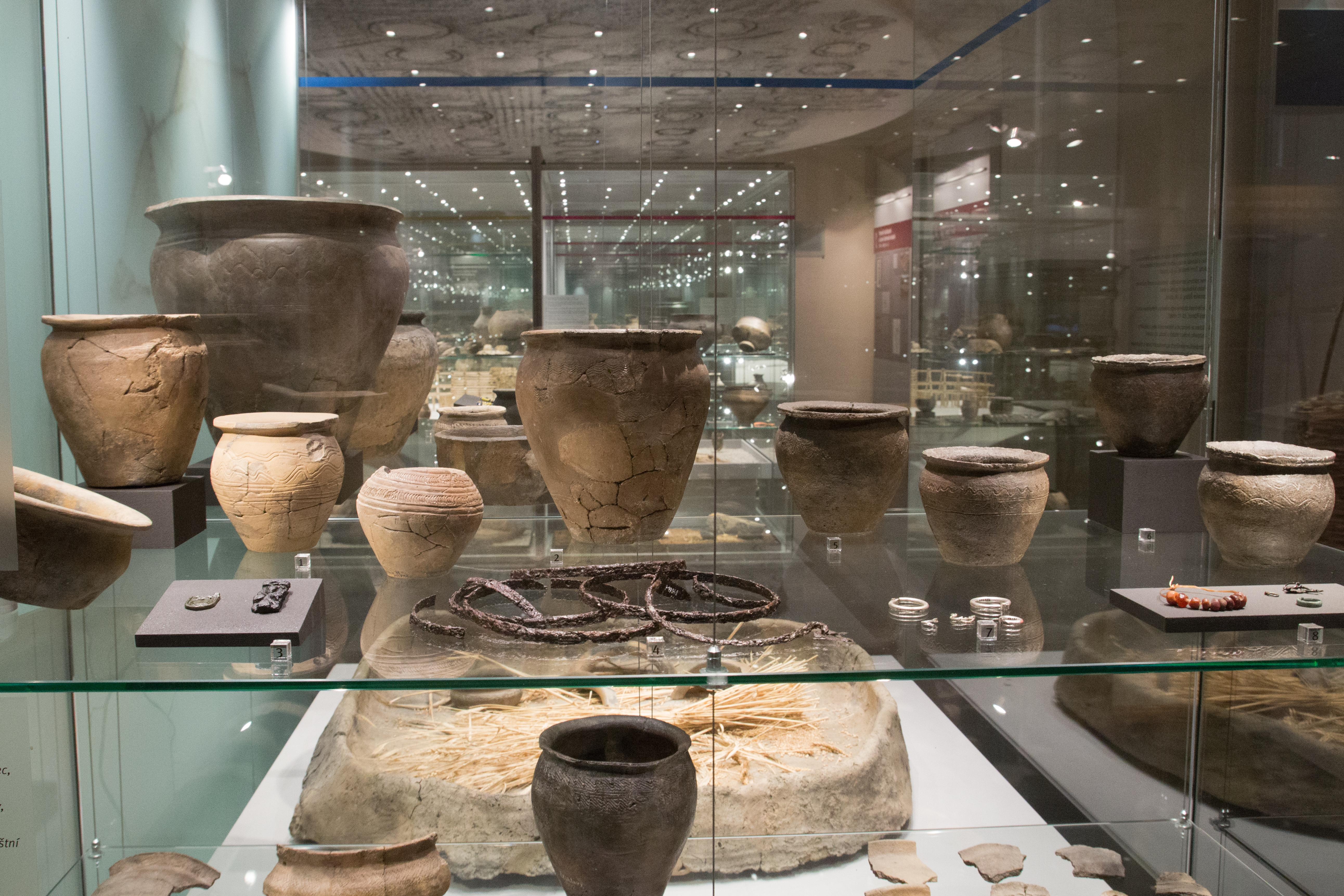 Slavic pottery of the Pilsen region, 7th - 10th century AD. Museum of Western Bohemia in Pilsen.